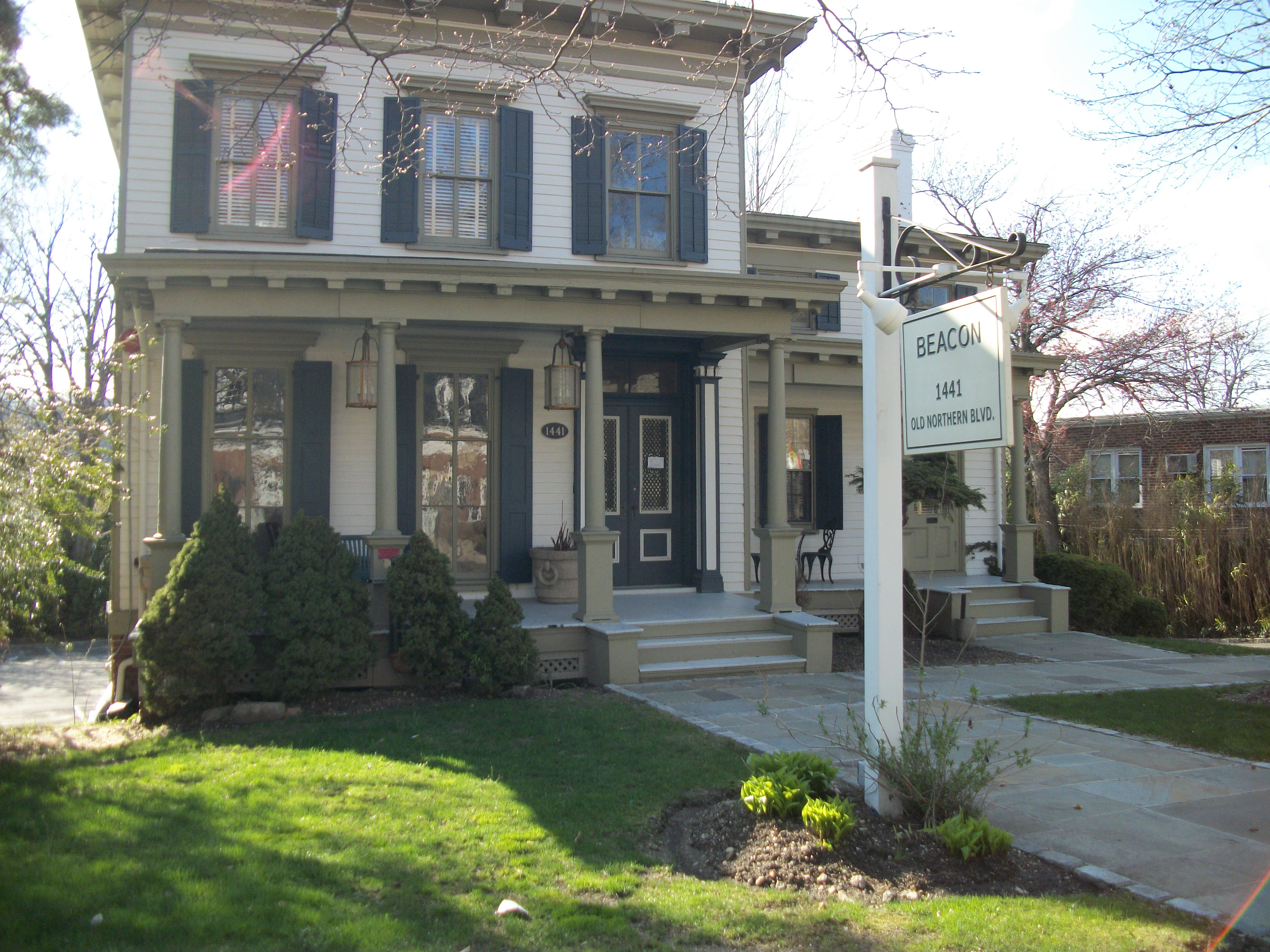 The original Willet Titus House in Roslyn, New York, also called "Beacon" for some reason.